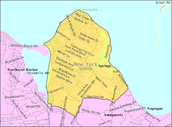 U.S. Census 2000 reference map for Springs